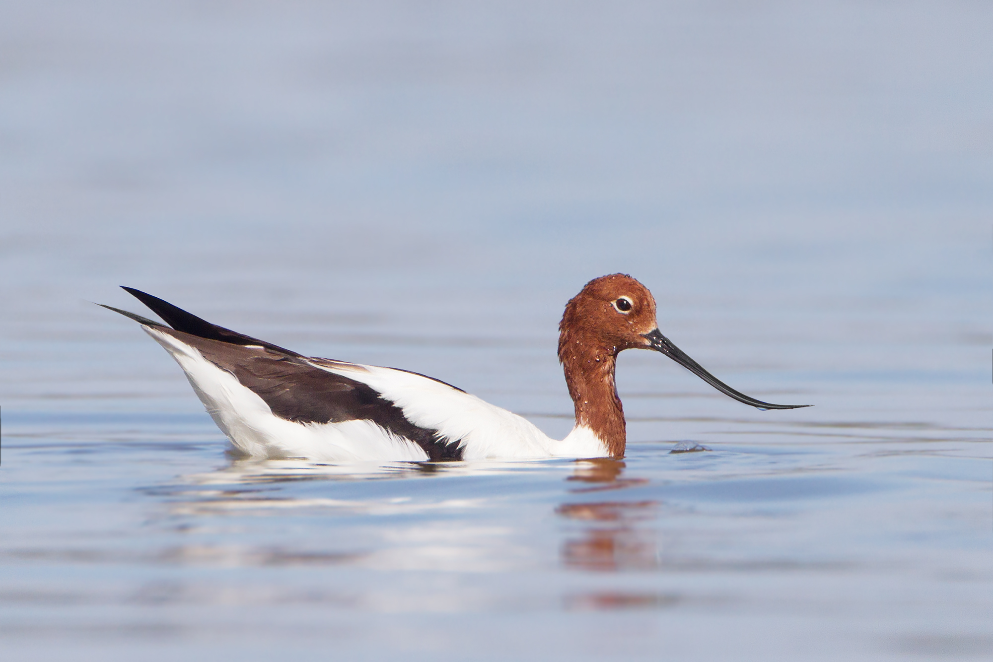 Red-necked Avocet (Recurvirostra novaehollandiae), Lake Joondalup, Perth, Western Australia, Australia